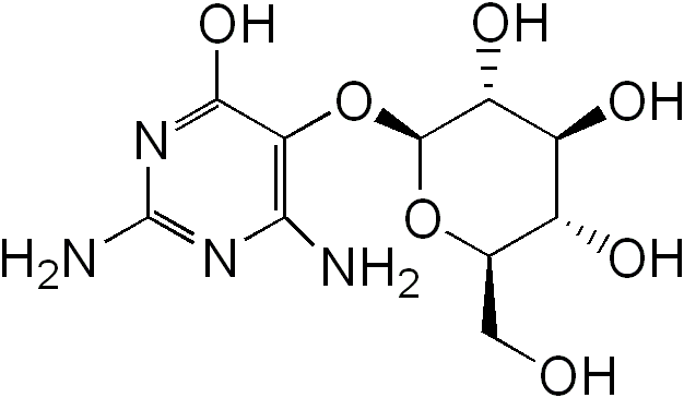 Molecular structure of Vicine